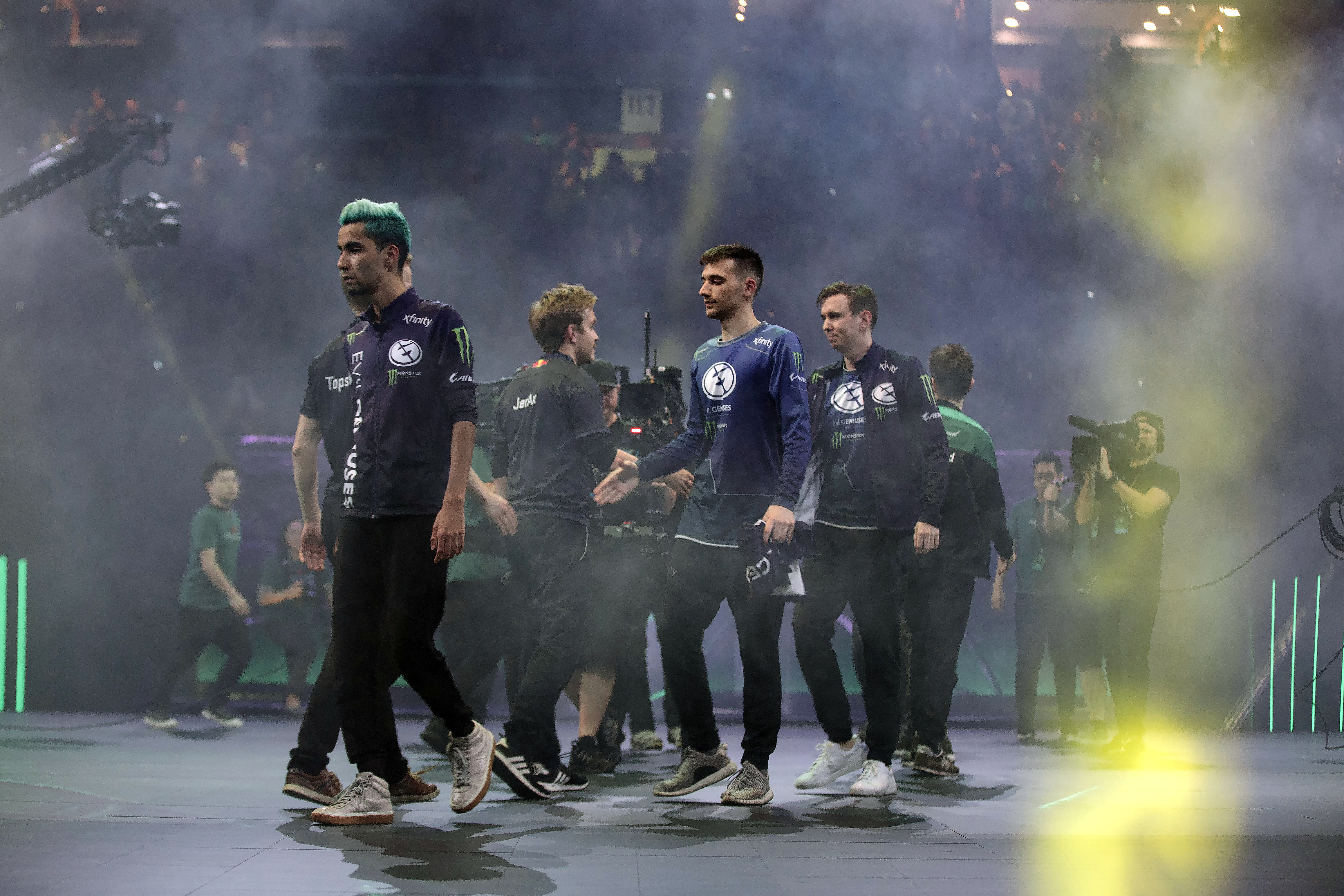 The International 2018